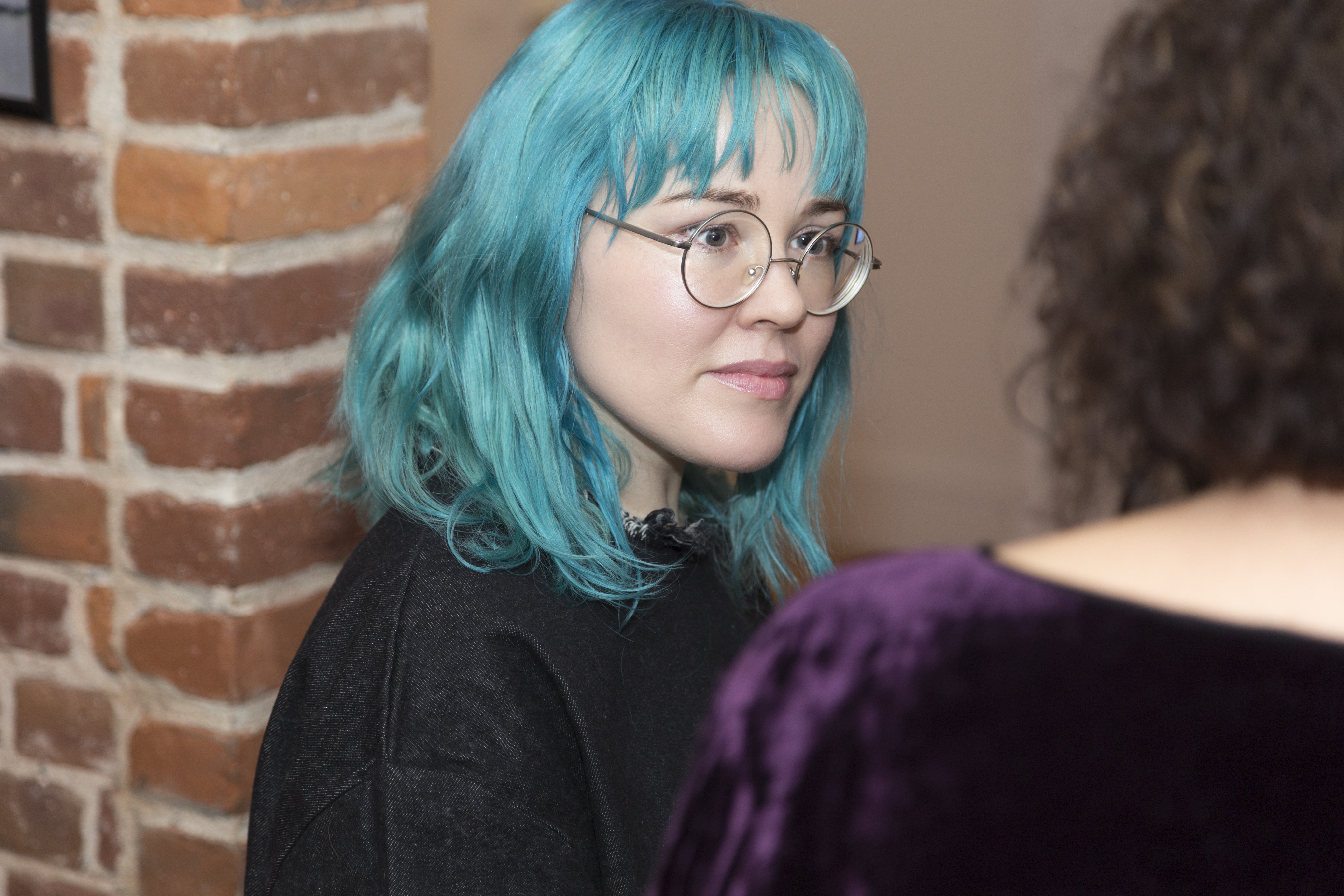 Jacqueline Mabey photographed at the opening reception “In this place where the guest rests” at Franklin Street Works, in Stamford, Connecticut, curated by Jacqueline Mabey. The event took place January 27th, 2018.